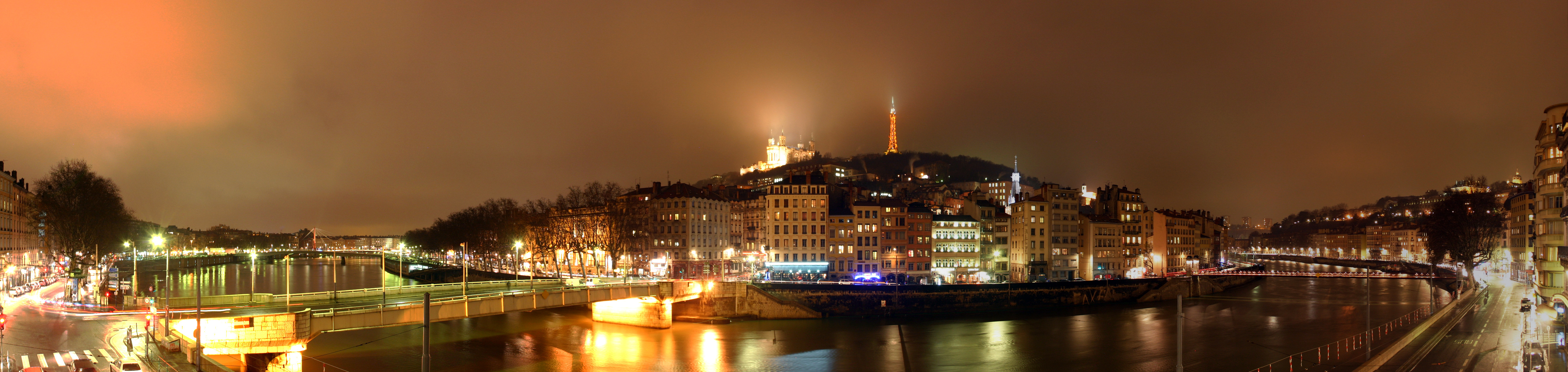 Panoramics of Fourvière & la Saône in Lyon